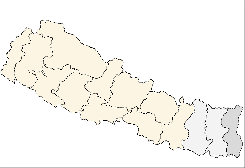 FrenchCarte de localisation de lazone de Mechi(wp-FR),au Népal (wp-FR).EnglishLocation map ofMechi Zone(wp-EN),in Nepal (wp-EN).